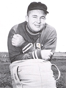 Nebraska Cornhuskers football coach Bill Glassford